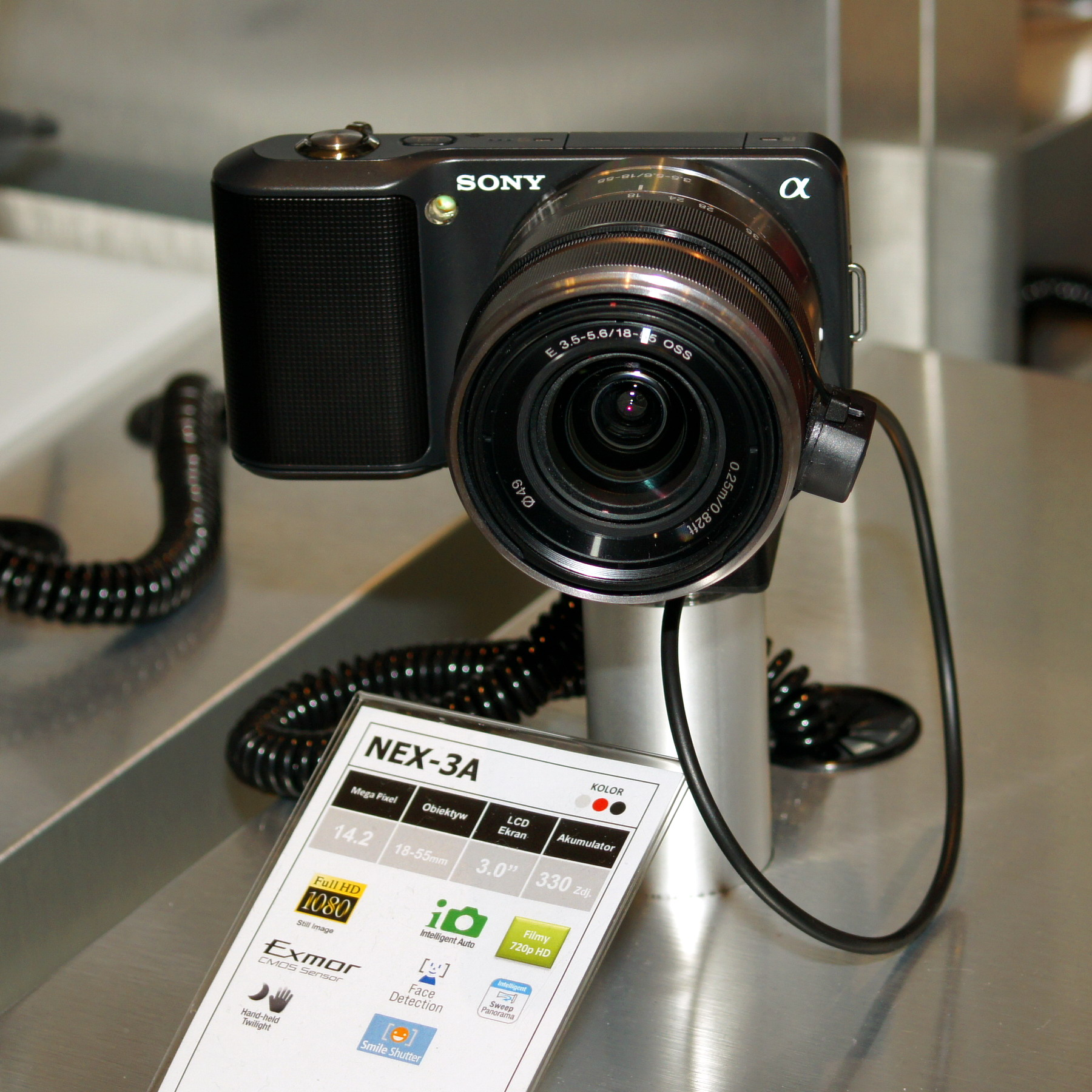 Sony NEX-3 digital camera.